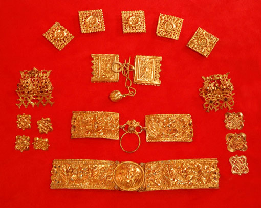 jewellery, exhibition of Museum im Steintor, Germany